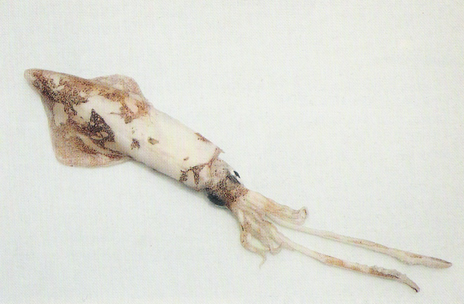 European flying squid, arrow squid (Todarodes sagittatus)